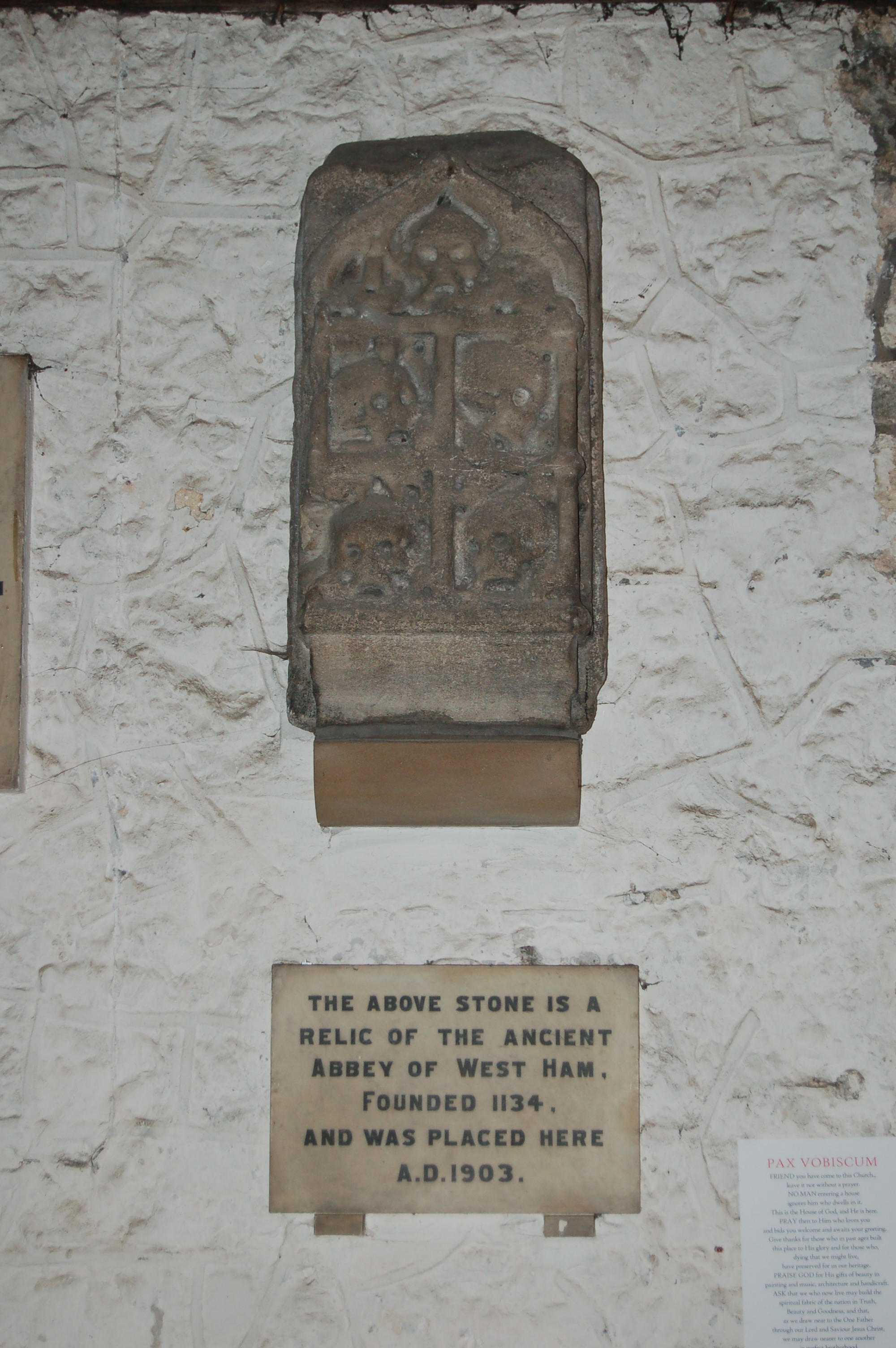 Use freely, pls attribute - K. Thompson The keystone to the charnel house of Stratford Langthorne Abbey, now in the parish church of West Ham (London Borough of Newham).